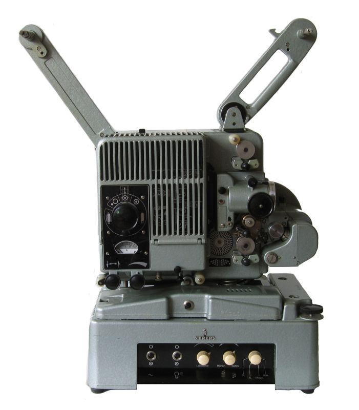 16 mm film projector "Siemens 2000" with sound amplifier (about 1960)